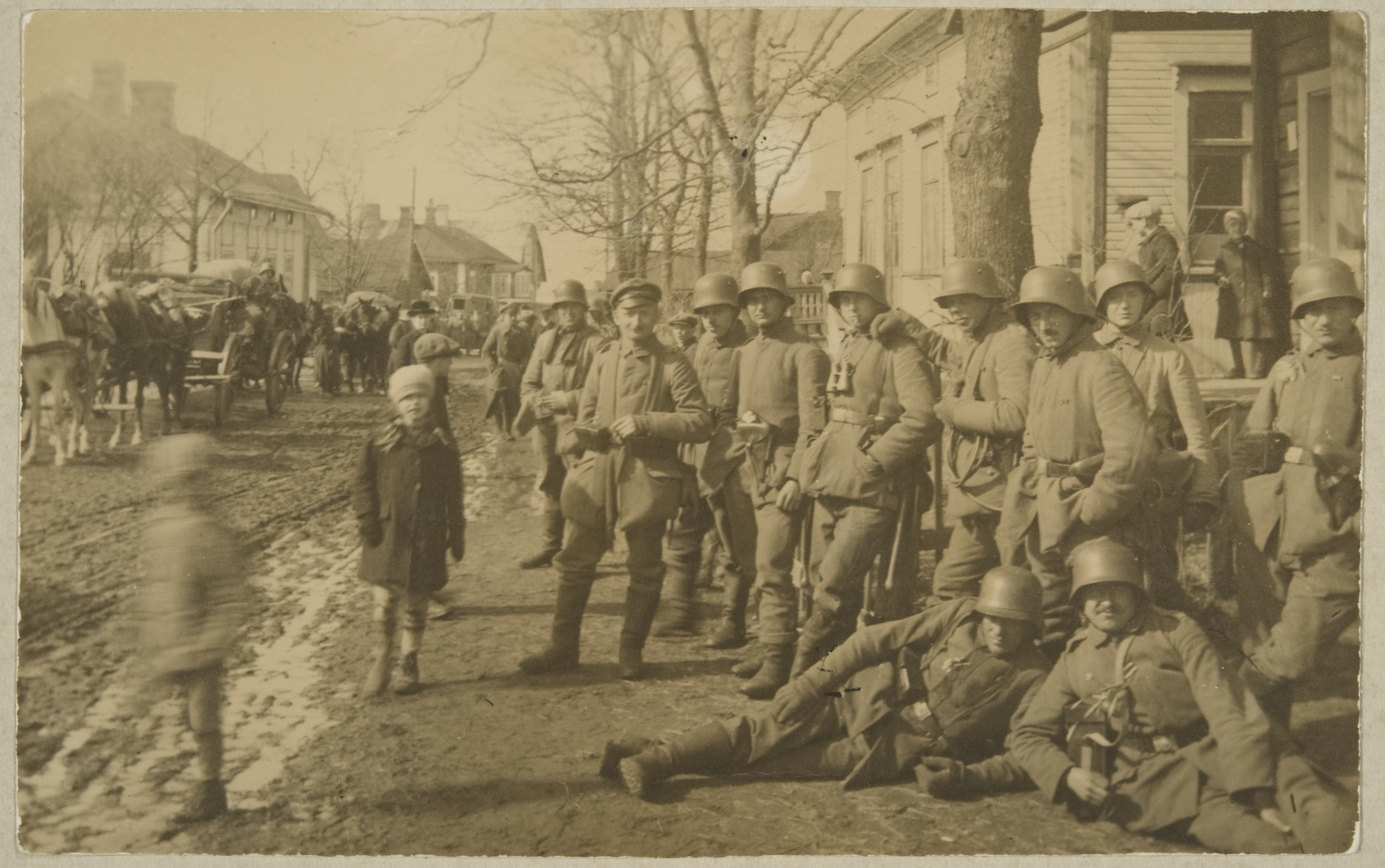 Troops of the German Baltic Sea Division in Lohja during the 1918 Finnish Civil War.